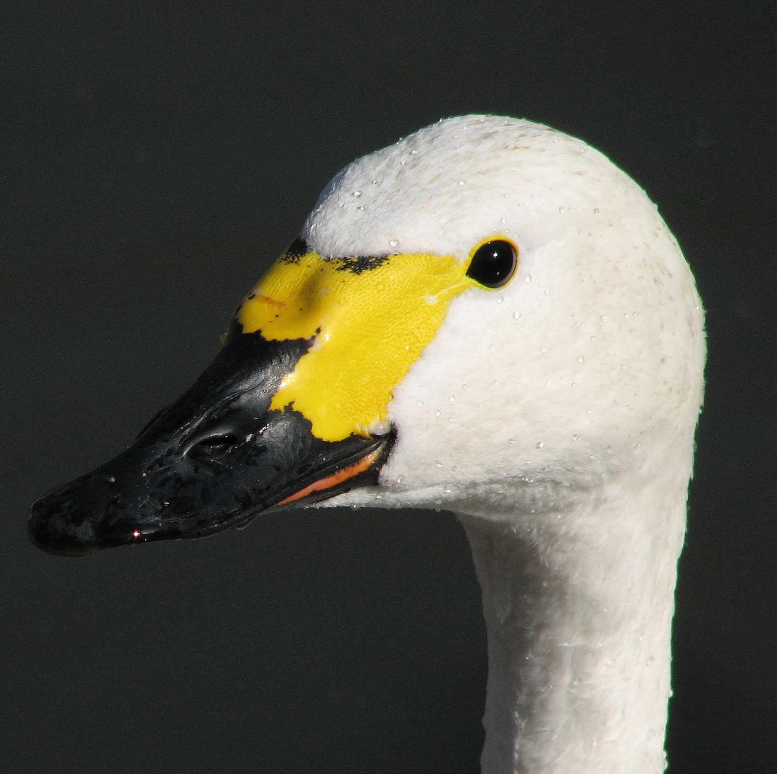 Bewick’s Swan Cygnus columbianus head at Slimbridge Wildfowl and Wetlands Centre, Gloucestershire, England. Photographed by Adrian Pingstone in September 2006 and placed in the public domain.